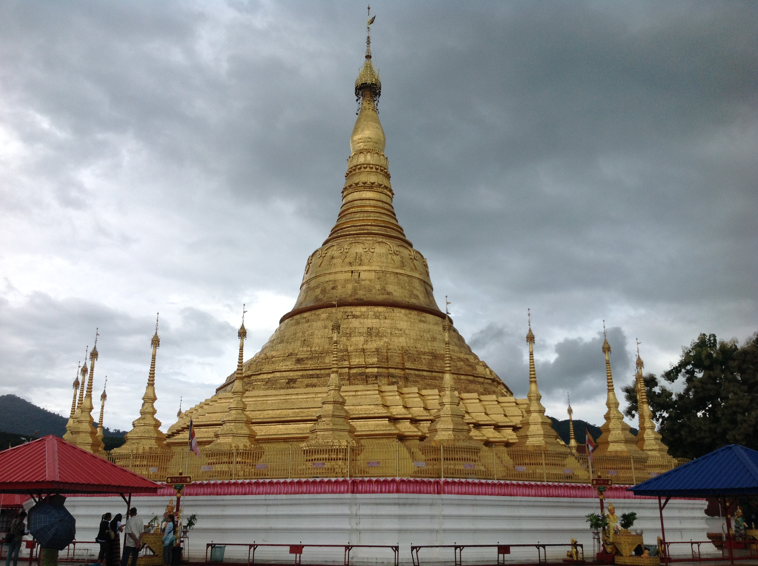 Tachileik Shwedagon Pagoda taken by 004.Berni.B